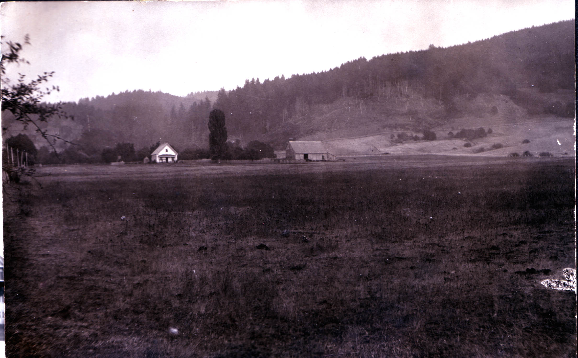 Isaac King Farmsead circa 1938. Listed on the National Register of Historic Places. As of the early 1990s, the house is no longer standing.